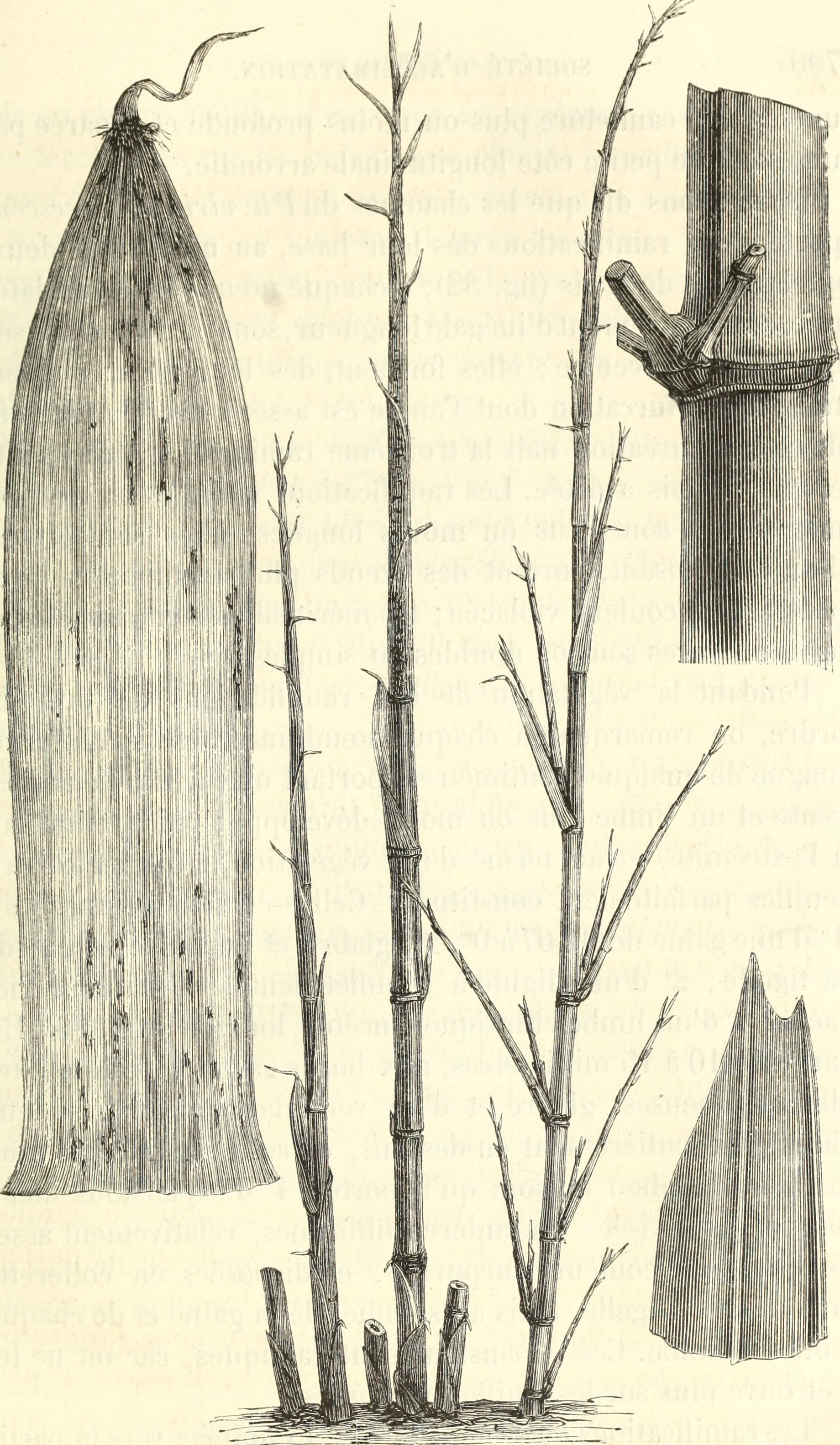 Title: Bulletin de la SociÃ©tÃ© nationale d'acclimatation de France Year: 1882 (1880s) Authors: SociÃ©tÃ© nationale d'acclimatation de France Subjects: Natural history; Zoology Publisher: Paris : Au SiÃ©ge de la SociÃ©tÃ© Text Appearing Before Image: ' Text Appearing After Image: Fig. 29. Fie. 30. Fig. 32, 31. PHYLLOSTACHYS VIUIDI-GLAUCESCENS. Fig. 29 Gaine spathiforme.â Fig. 30. Tiges Ã diffÃ©rentes Ã©poques de dÃ©veloppement. Fig. 31, Ãcaille bÃ¯nervee.â Fig. 32. TiÃ§es avec ramifications gÃ©minÃ©es.